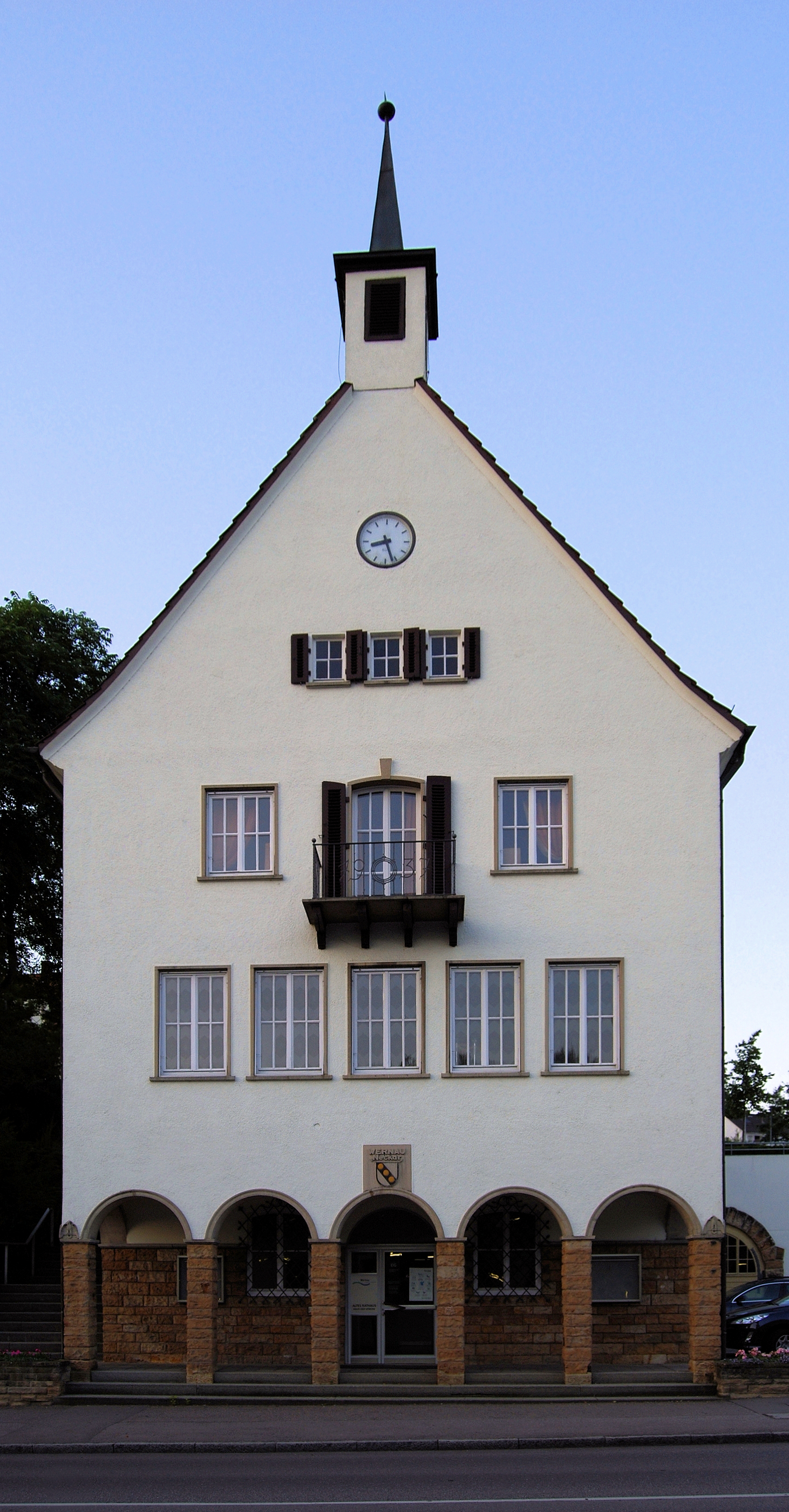 The old town hall of Wernau/Neckar, Baden-Württemberg. Picture taken in the evening.